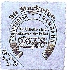 Ticket for the local railway in Frankfurt am Main 1875